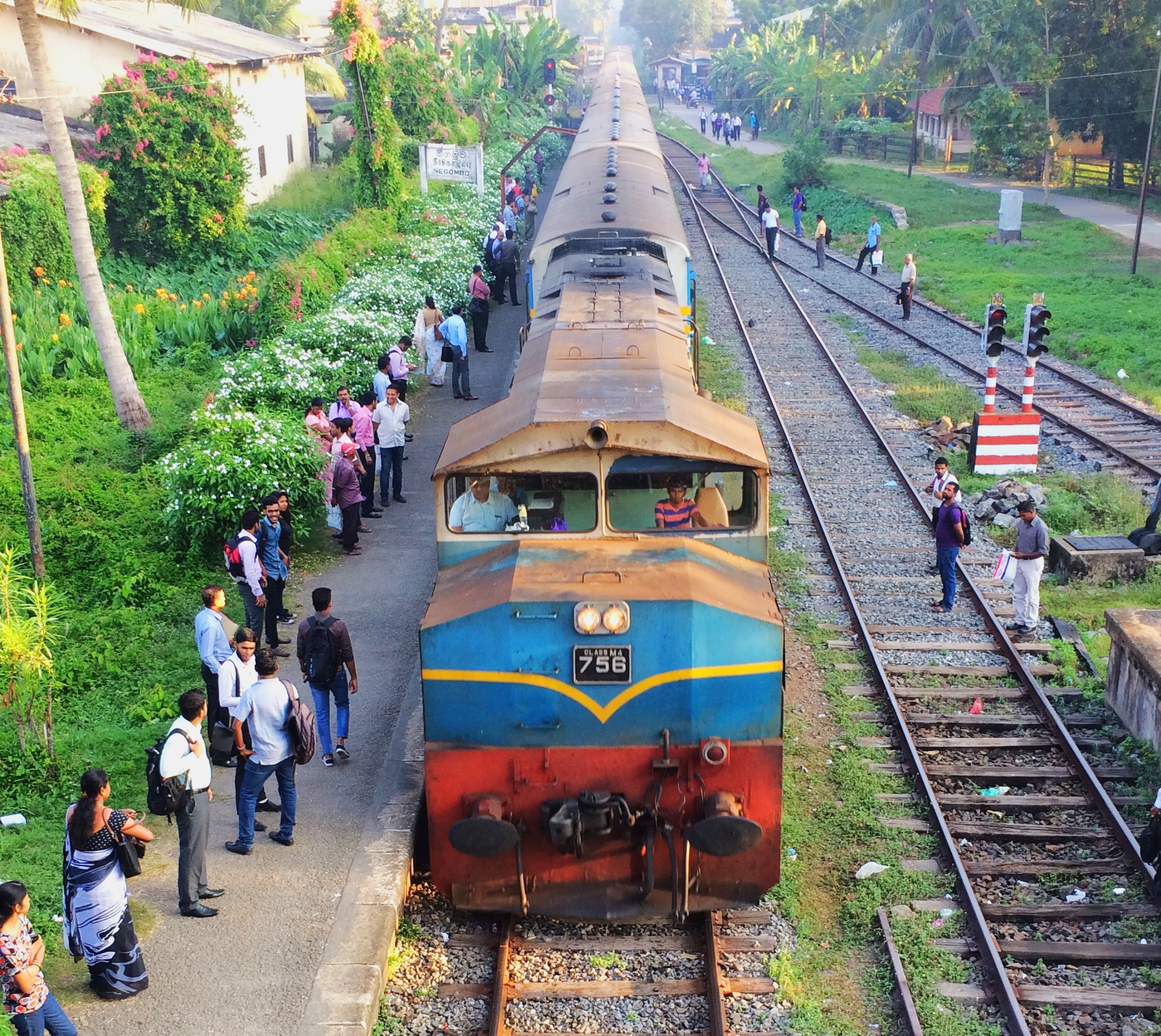 Bangadeniya Train